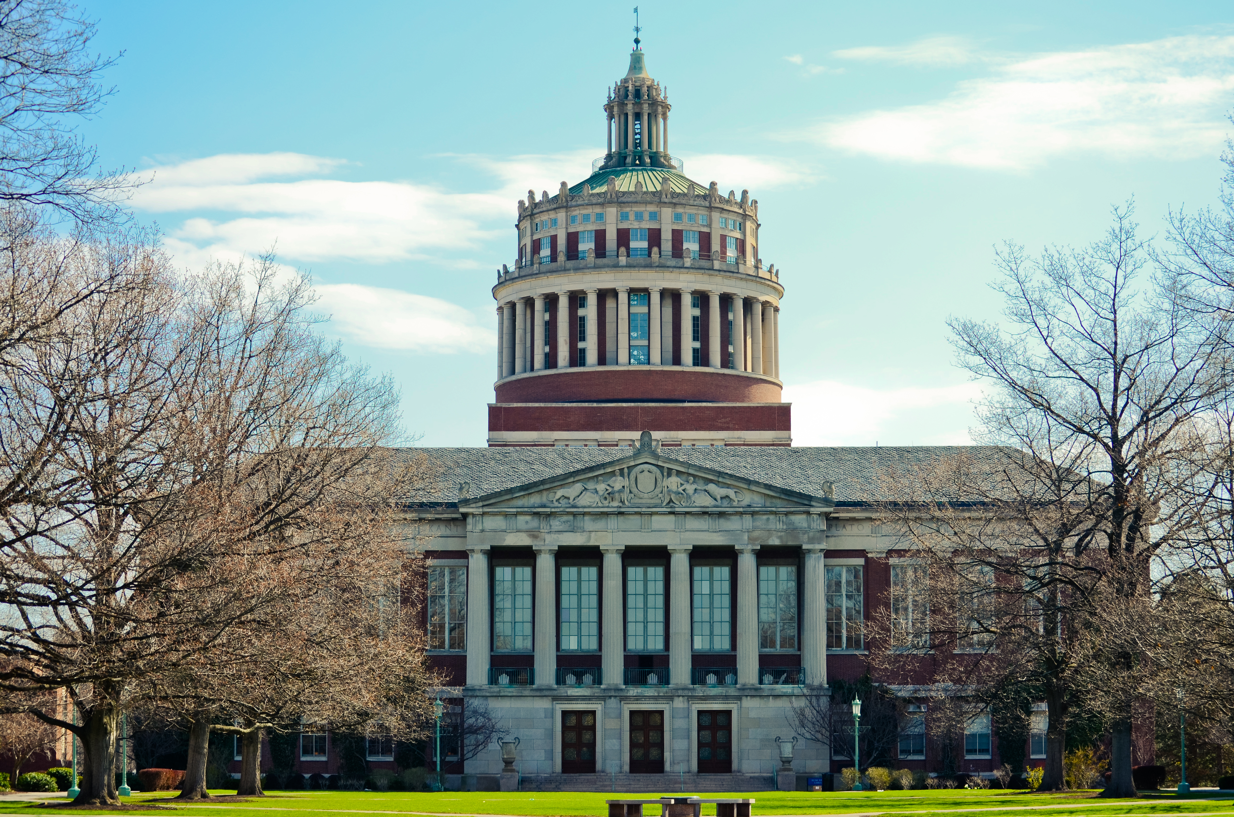 Central library at the University of Rochester